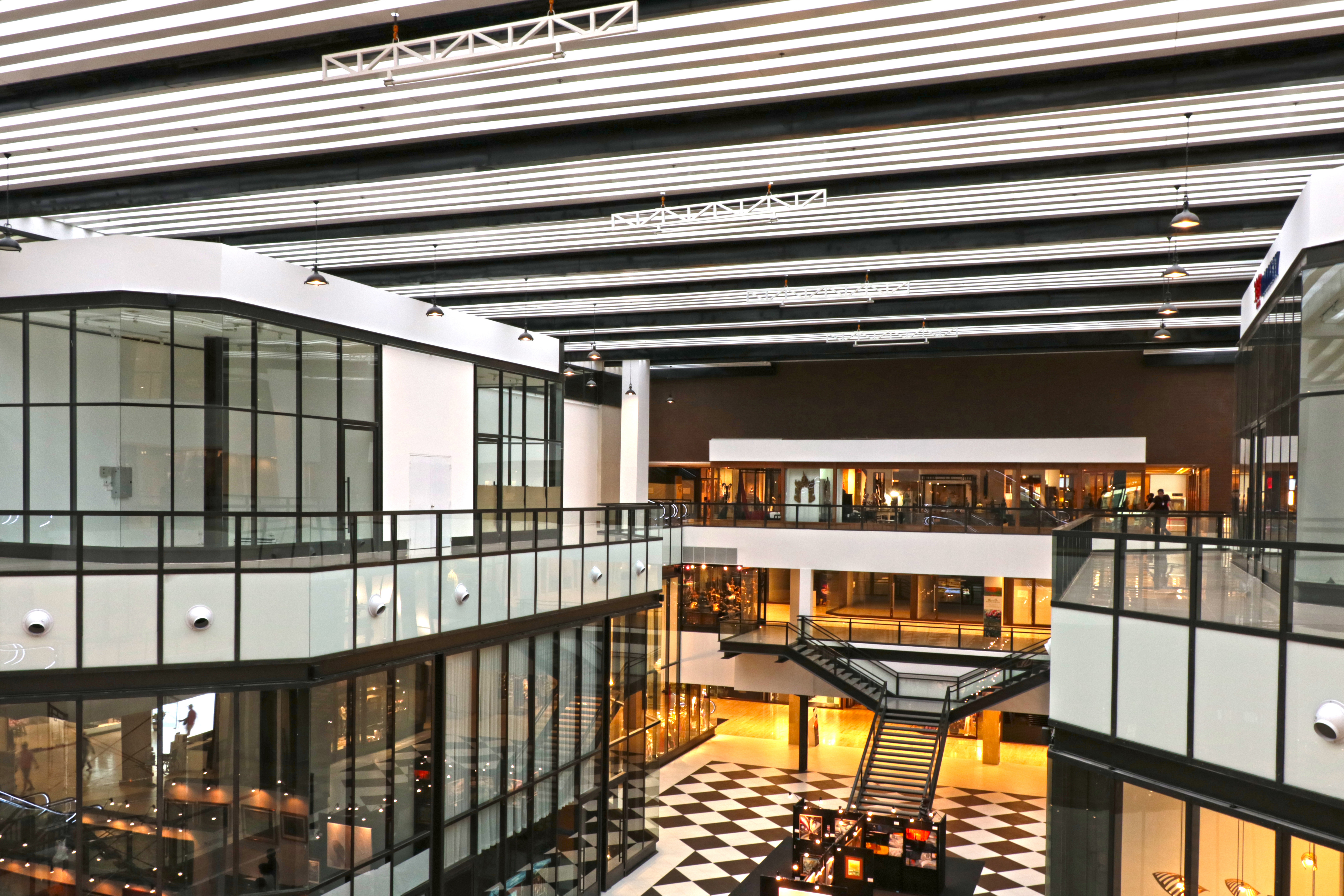 River City Shopping Complex is a shopping mall in Bangkok, Thailand. It is located alongside the Chao Phraya River on the Si Phraya Pier.